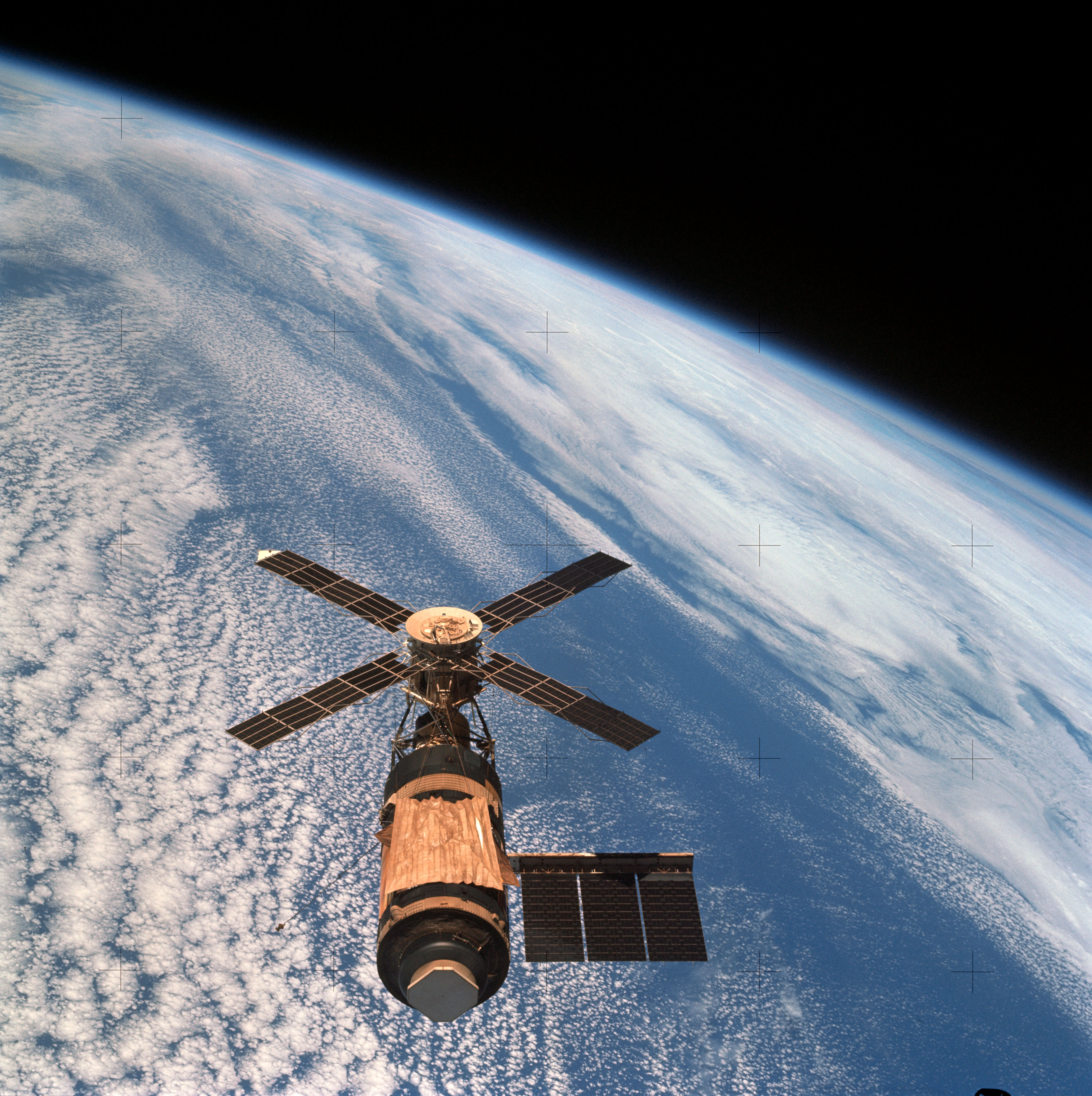 An overhead view of the Skylab Orbital Workshop in Earth orbit as photographed from the Skylab 4 Command and Service Modules (CSM) during the final fly-around by the CSM before returning home. The space station is contrasted against the pale blue Earth. During launch on May 14, 1973, some 63 seconds into flight, the micrometeor shield on the Orbital Workshop (OWS) experienced a failure that caused it to be caught up in the supersonic air flow during ascent. This ripped the shield from the OWS and damaged the tie downs that secured one of the solar array systems. Complete loss of one of the solar arrays happened at 593 seconds when the exhaust plume from the S-II's separation rockets impacted the partially deployed solar array system. Without the micrometeoroid shield that was to protect against solar heating as well, temperatures inside the OWS rose to 126 degrees fahrenheit. The gold "parasol" clearly visible in the photo, was designed to replace the missing micrometeoroid shield, protecting the workshop against solar heating. The replacement solar shield was deployed by the Skylab I crew. This enabled the Skylab Orbital Workshop to fulfill all its mission objects serving as home to additional crews before being deorbited in 1978.